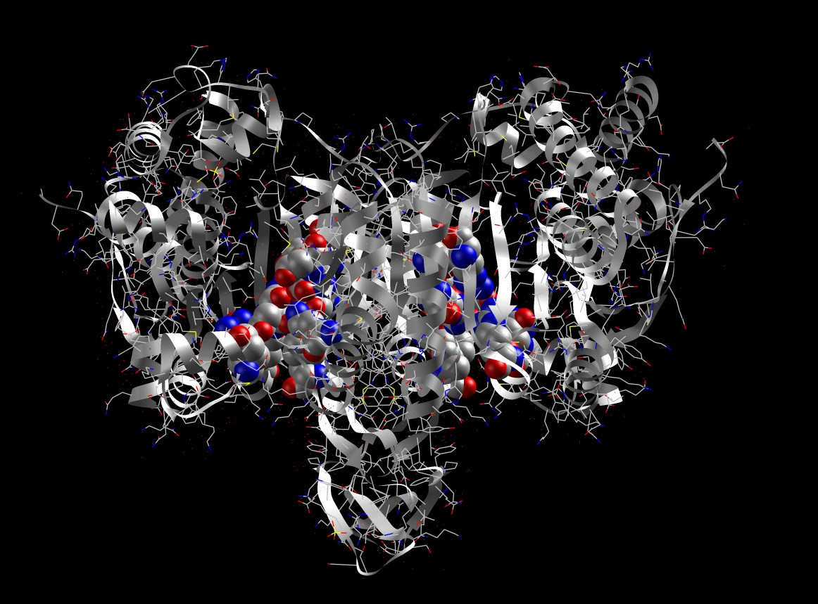 Crystal structure of Dimeric Homeodomains showing symmetrical active sites.